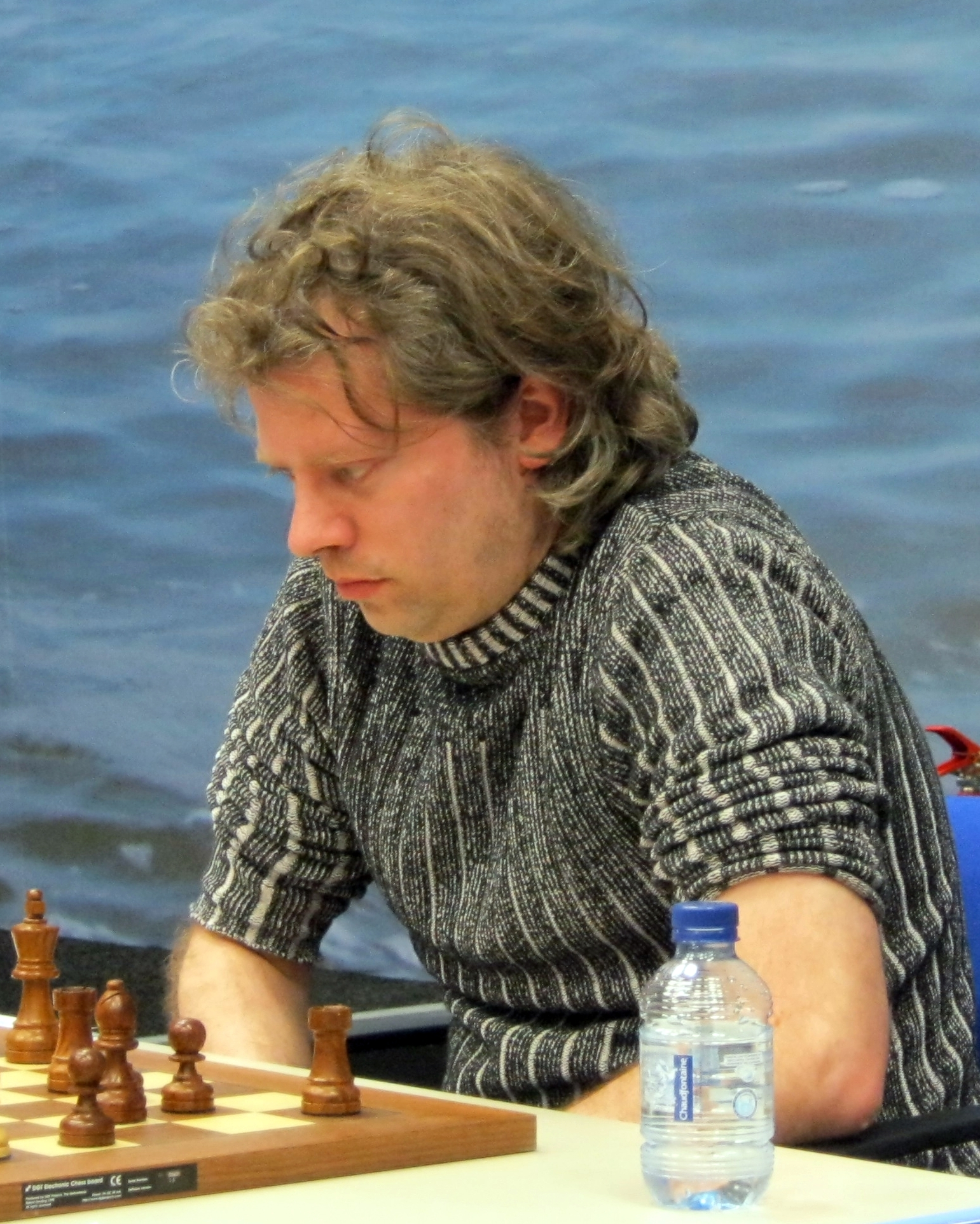 Dimitri Reinderman, chess grandmaster from the Netherlands